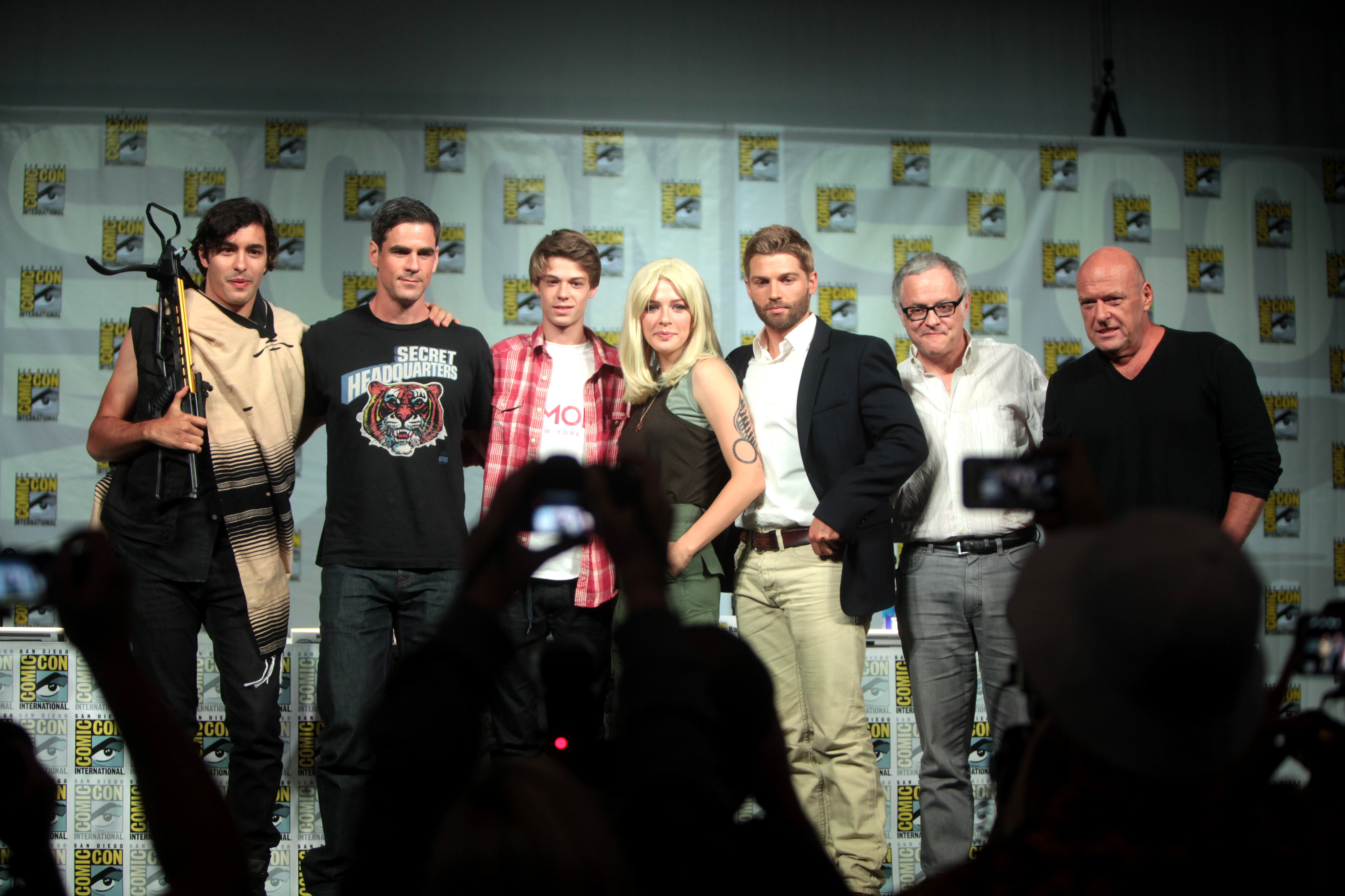 Alexander Koch, Eddie Cahill, Colin Ford, Rachelle Lefevre, Mike Vogel, Neal Baer and Dean Norris speaking at the 2014 San Diego Comic Con International, for "Under the Dome", at the San Diego Convention Center in San Diego, California.